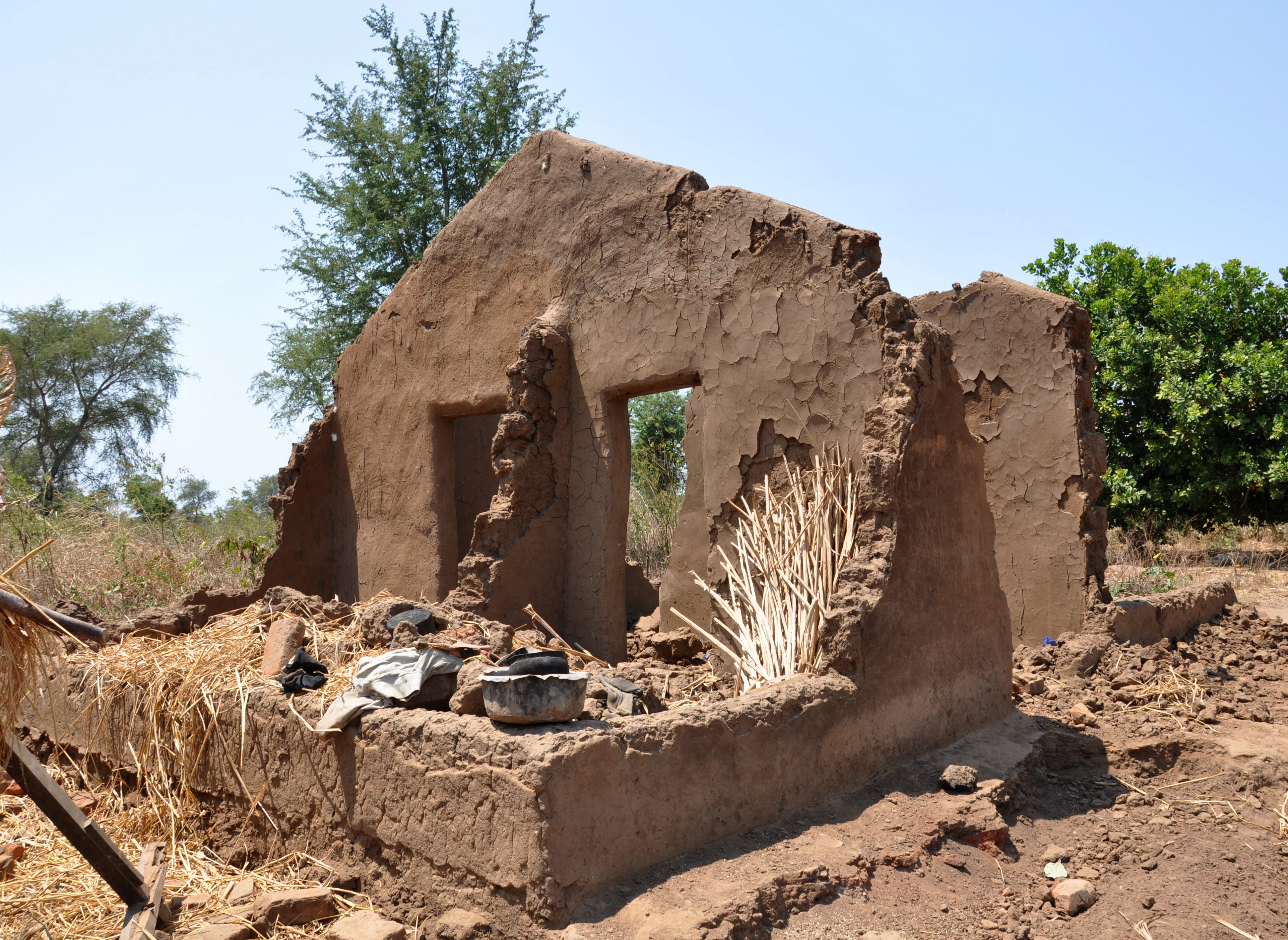 Edicas' mud hut which was one of 1,557 houses that collapsed in Karonga following the two earthquakes in December 2009. A further 3,569 houses were damaged, and over 31,000 households were affected. Picture credit: Shareefa Choudhury/ Department for International Development